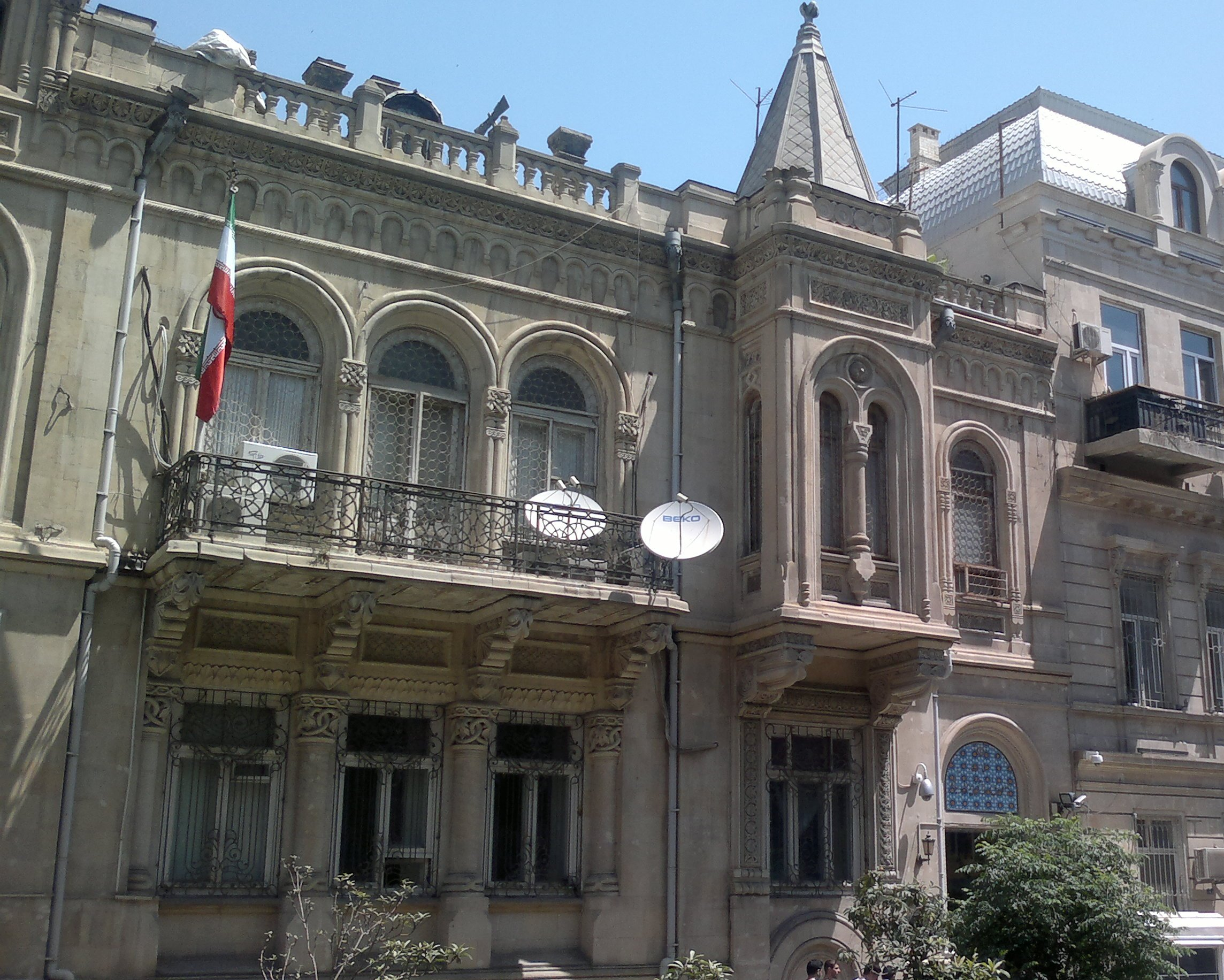 Building of Iranian embassy in Baku (Azerbaijan). Was built in 19th-early 20th cc. In 1920s Mikhail Dragnewich and Pawla Benkendorf live there.